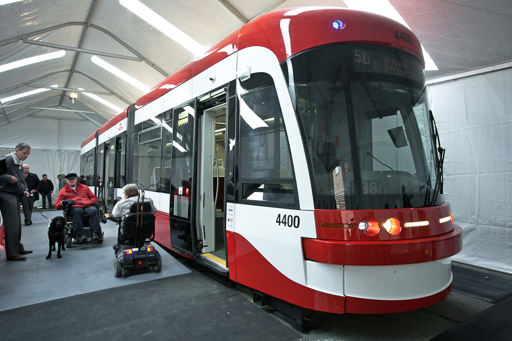 TTC street car